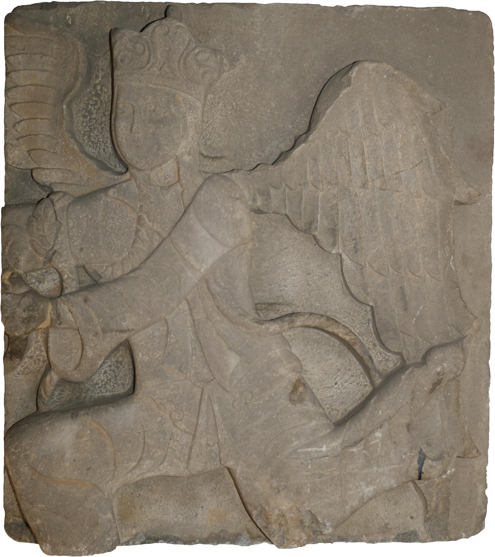 Architectural fragment, seljuk period.